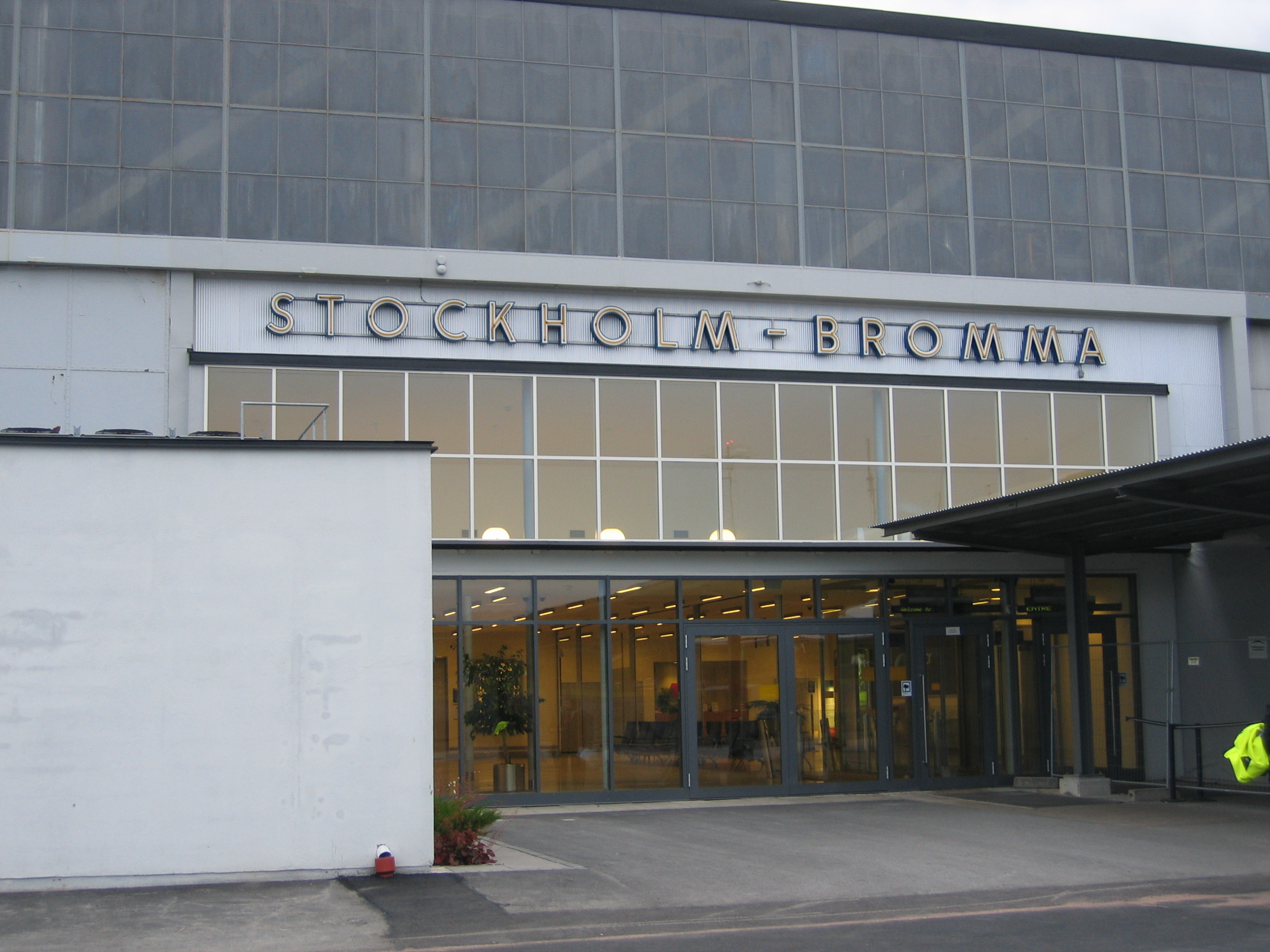 Arrivals area at Bromma airport, Stockholm, Sweden as seen from the tarmac